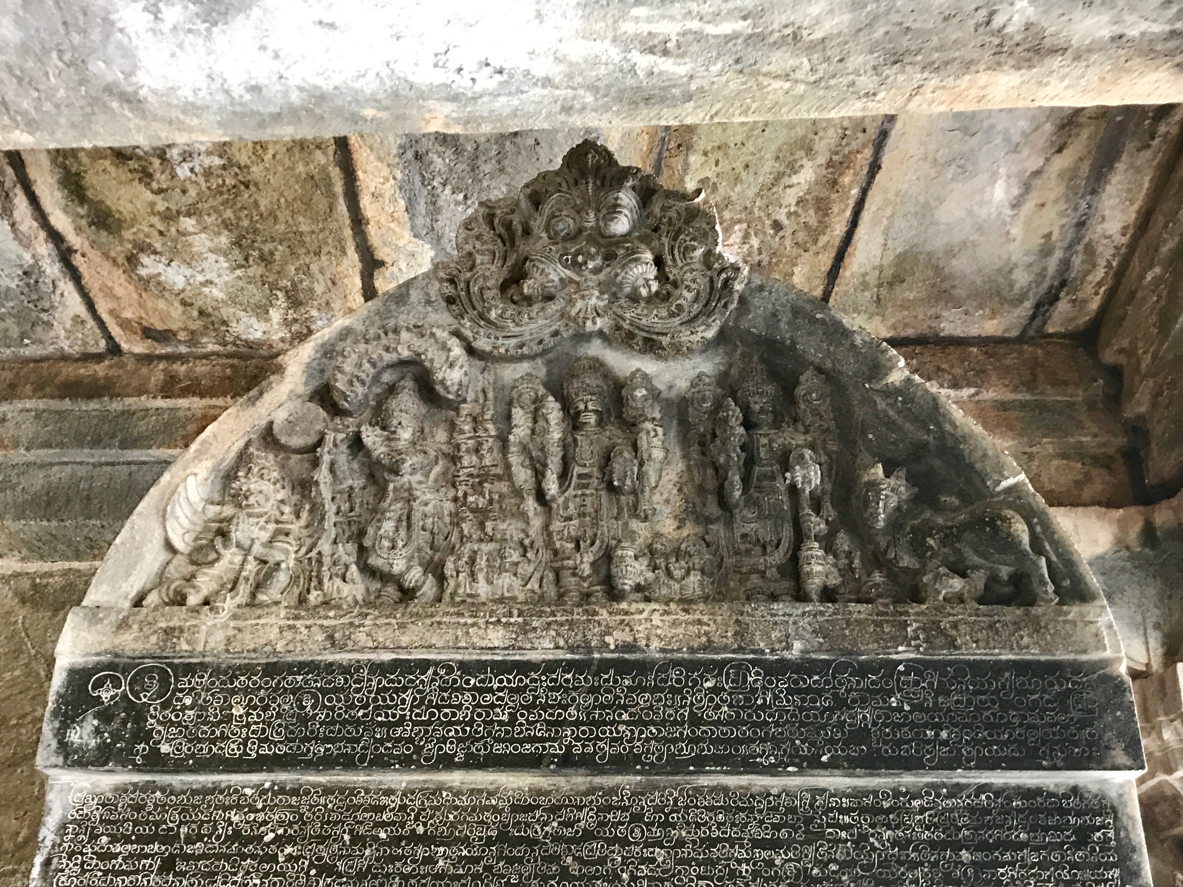 Inscription in old Kannada inscription on Kesava (Keshava) temple, Somanathapura (Somanathpur), Karnataka